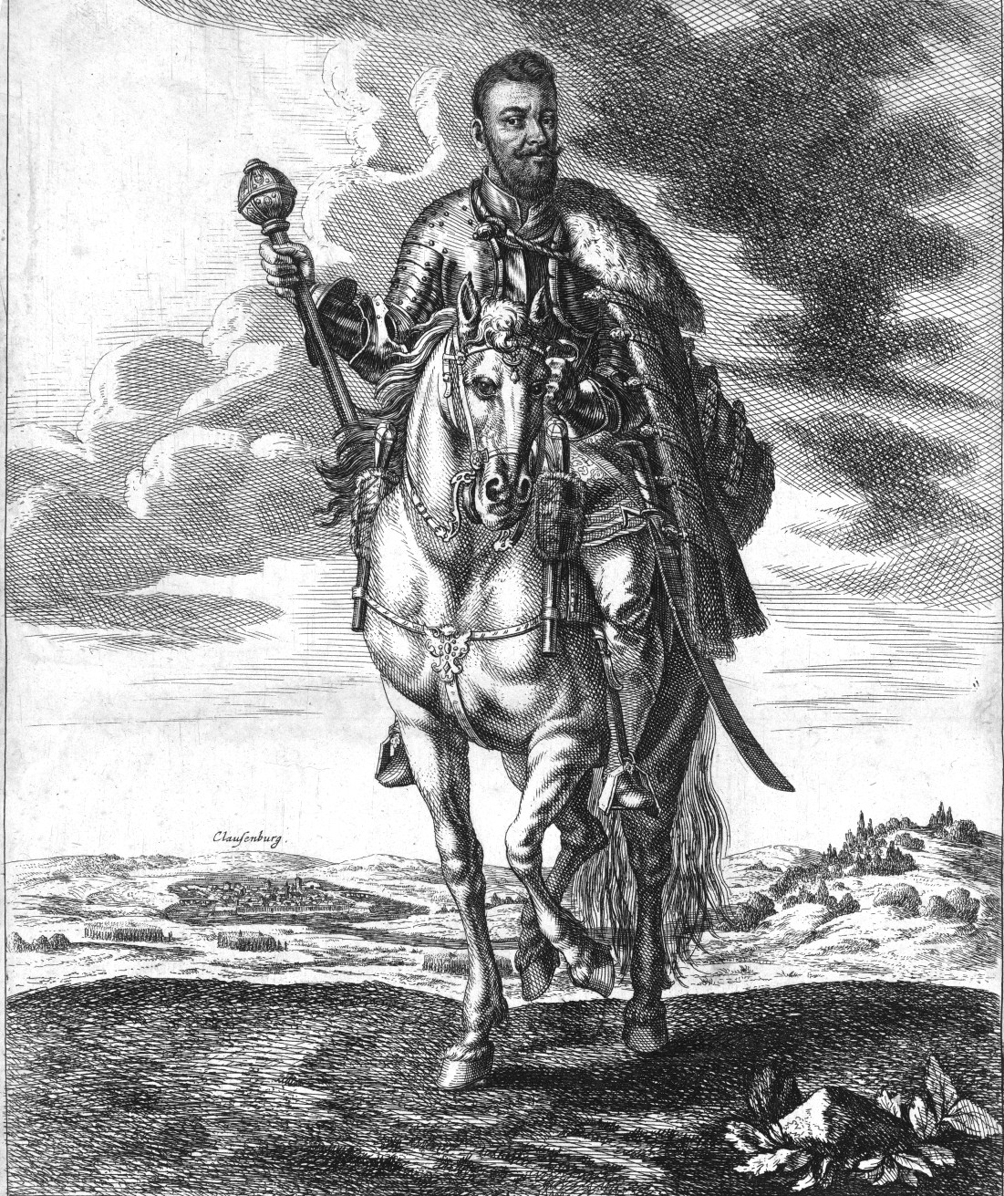 I Michael Apafi Prince of Transilvania